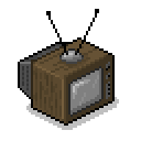 This image was originally created and uploaded by User:Kieff (see Image:Pixelart-tv-iso.png). I increased the image's size to show the pixels.